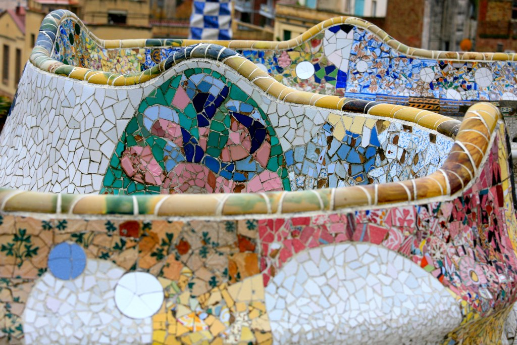 Barcelona: Benches at Park Güell by Antonio Gaudi.